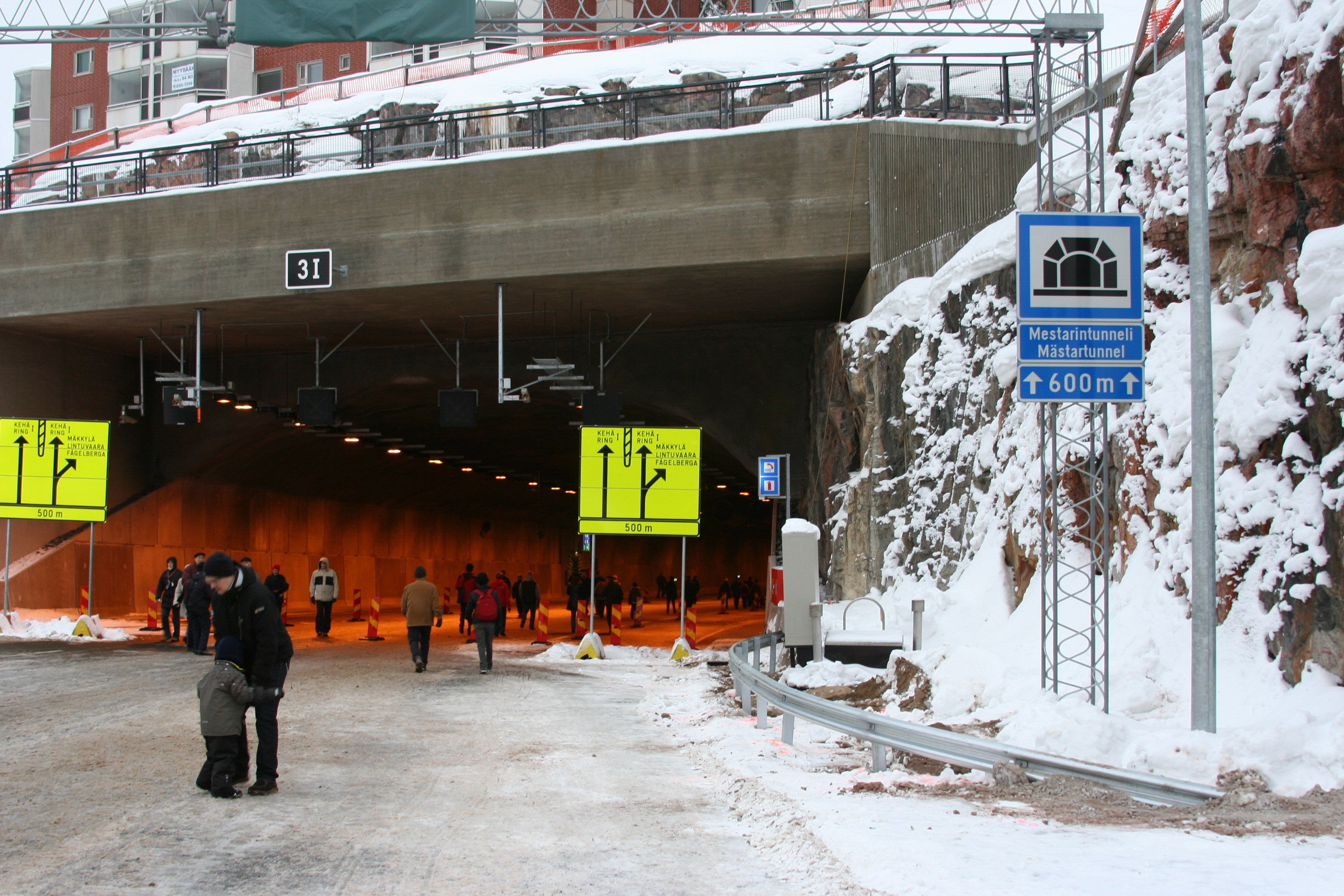 Mestarintunneli, a road tunnel. Southern entrance. Espoo, Finland. The tunnel is under construction.